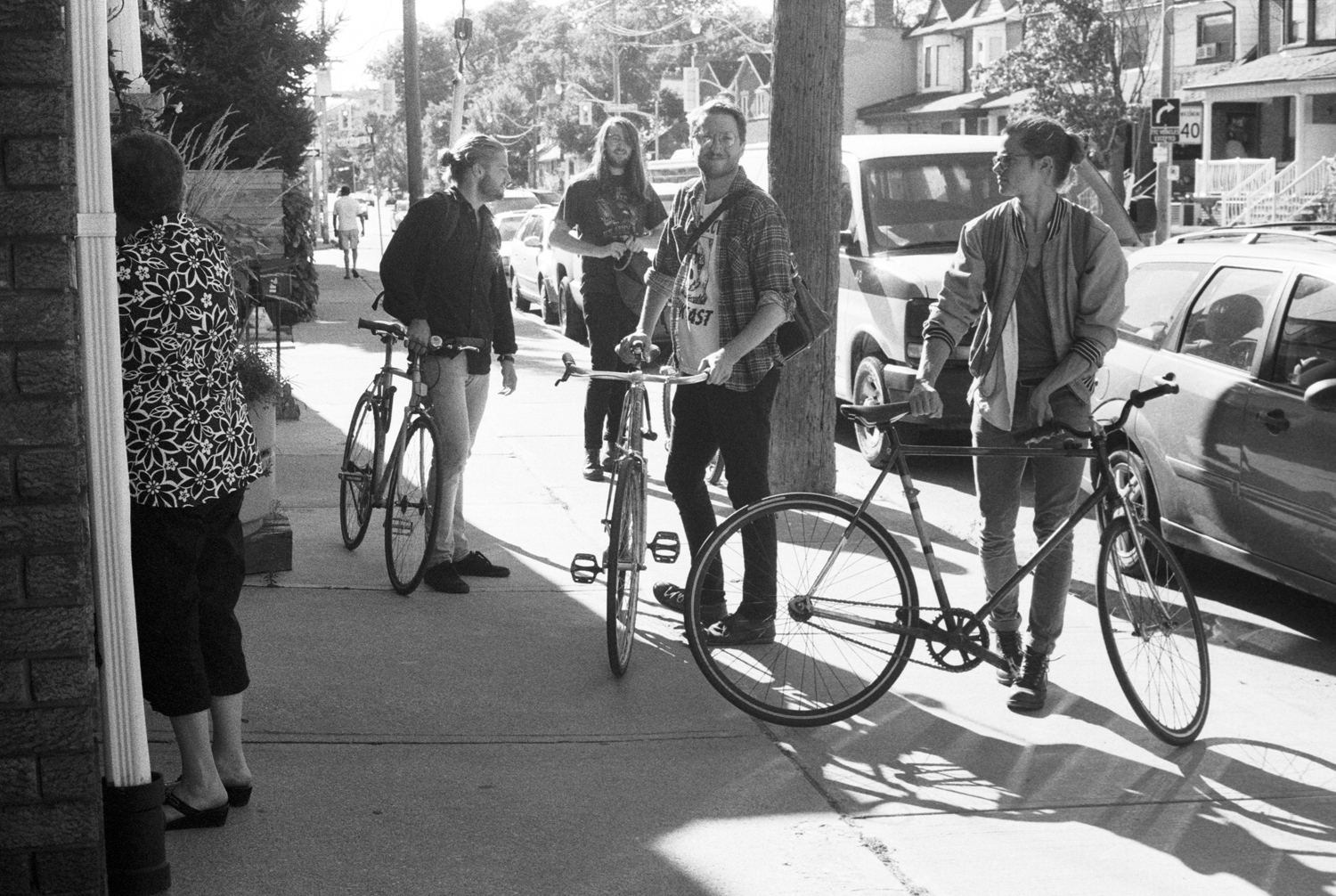 The Wooden Sky outside the recording studio